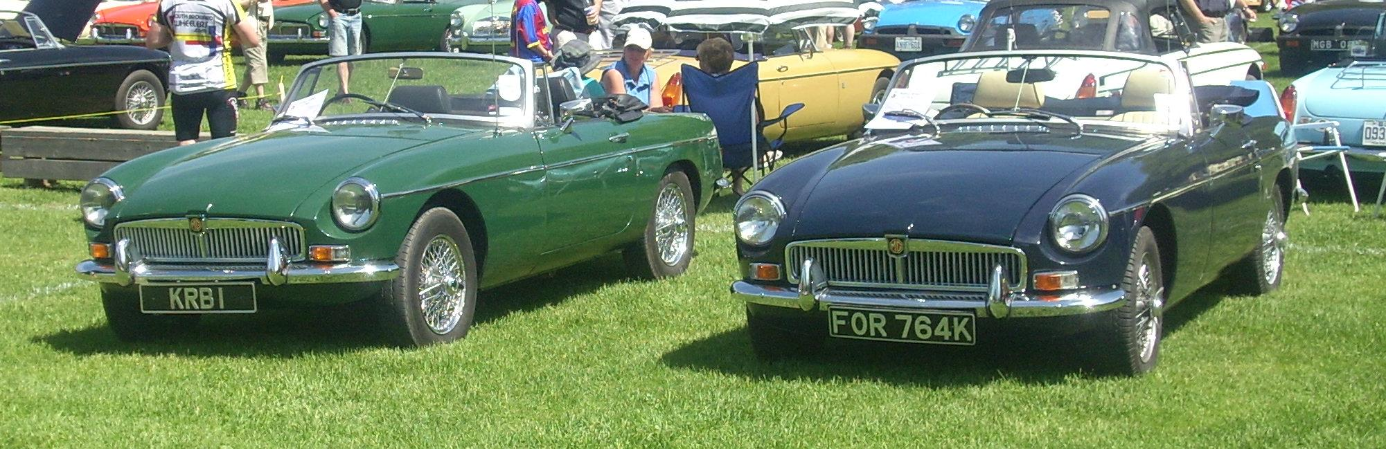 MG MGBs photographed at the 2008 Hudson British Car Show.